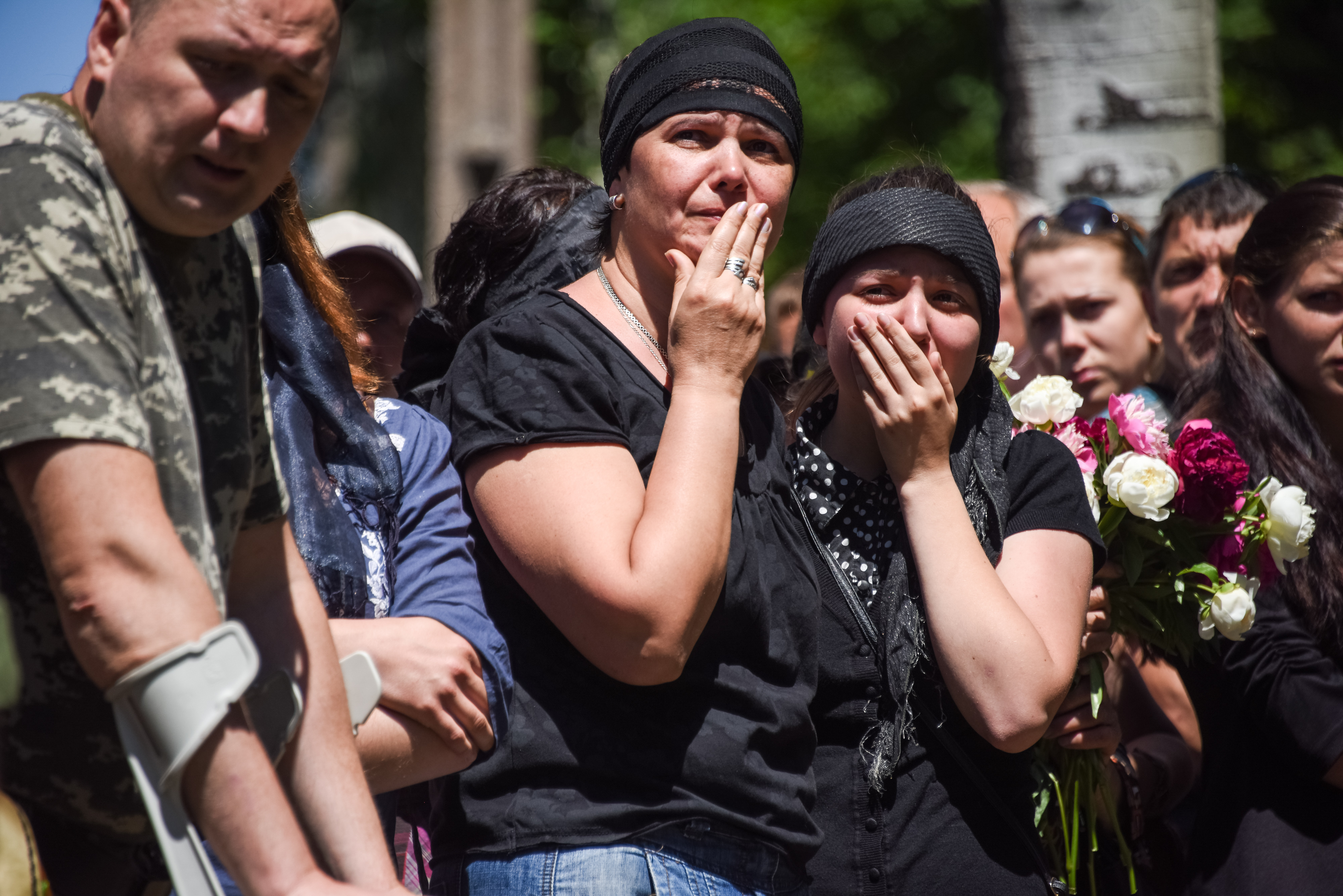 Relatives of pro-Russian rebels mourning for fighters killed in a battle for Marinka near Donetsk. Eastern Ukraine, 6 June, 2015